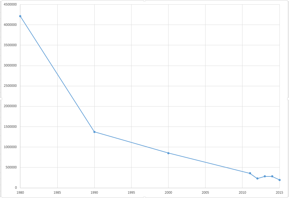 Evolution of number of measles reported cases between 1980 and 2015.[1]